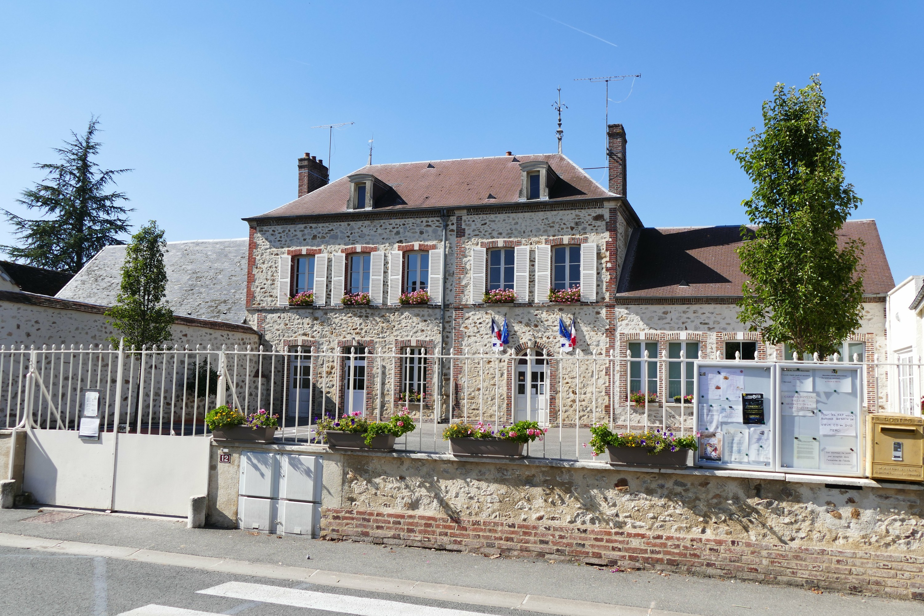 The city hall in Saint-Aubin (Aube, Champagne-Ardenne, France).